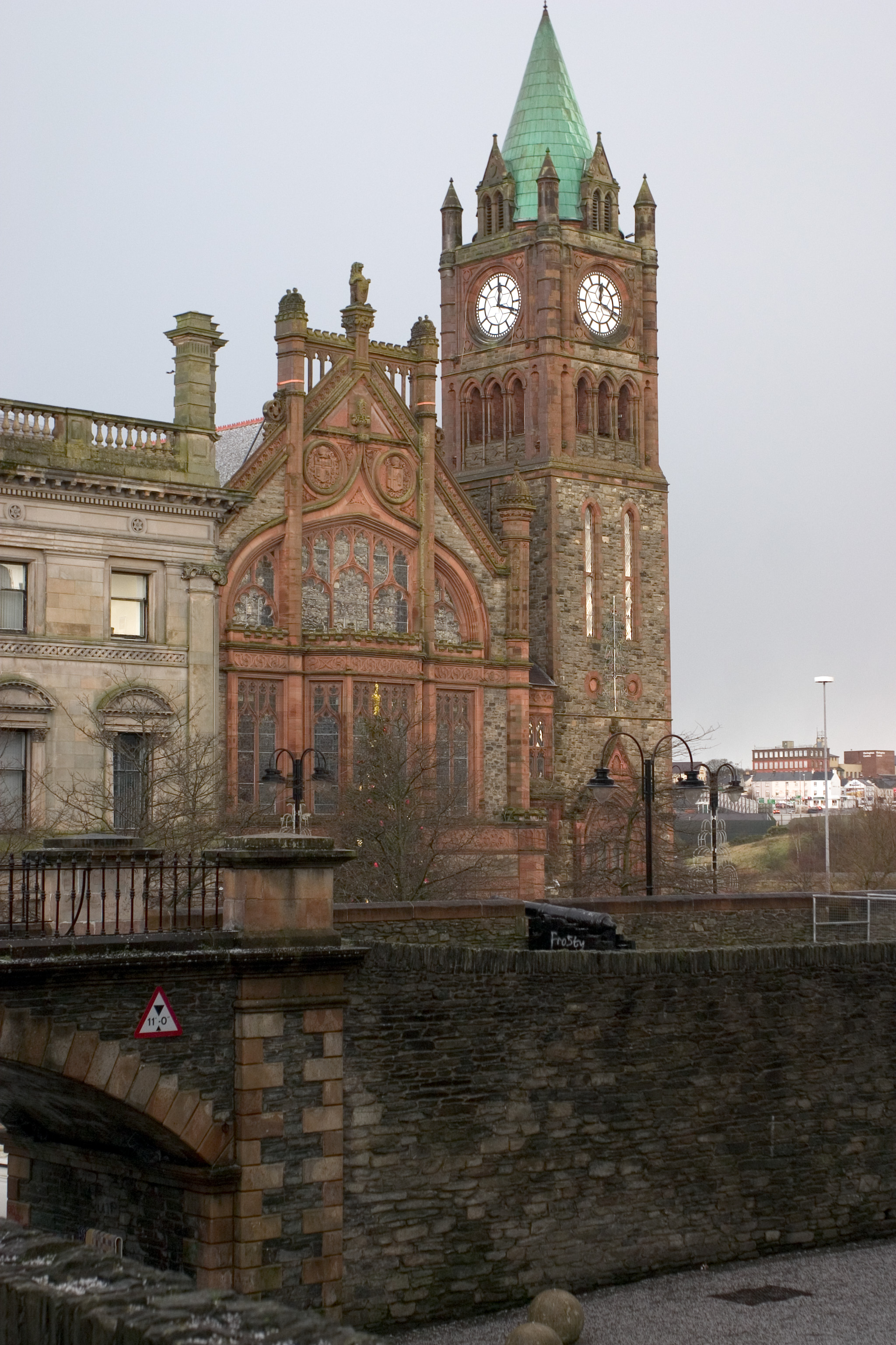 Guildhall, Derry, County Londonderry, Northern Ireland.